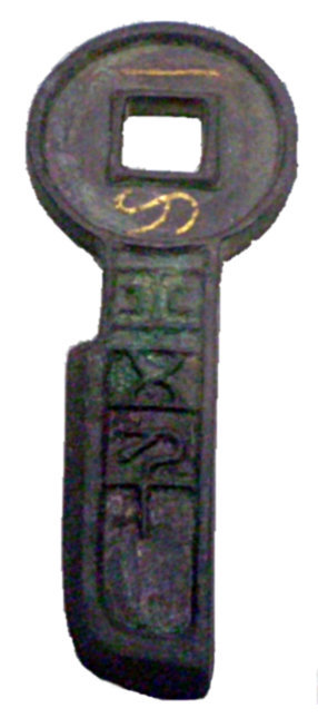 Yi Dao Ping Wu Qian (one knife worths 5000 coins) issued by Wang Mang in 7 CE. Characters "Yi Dao" are inlaid in gold.